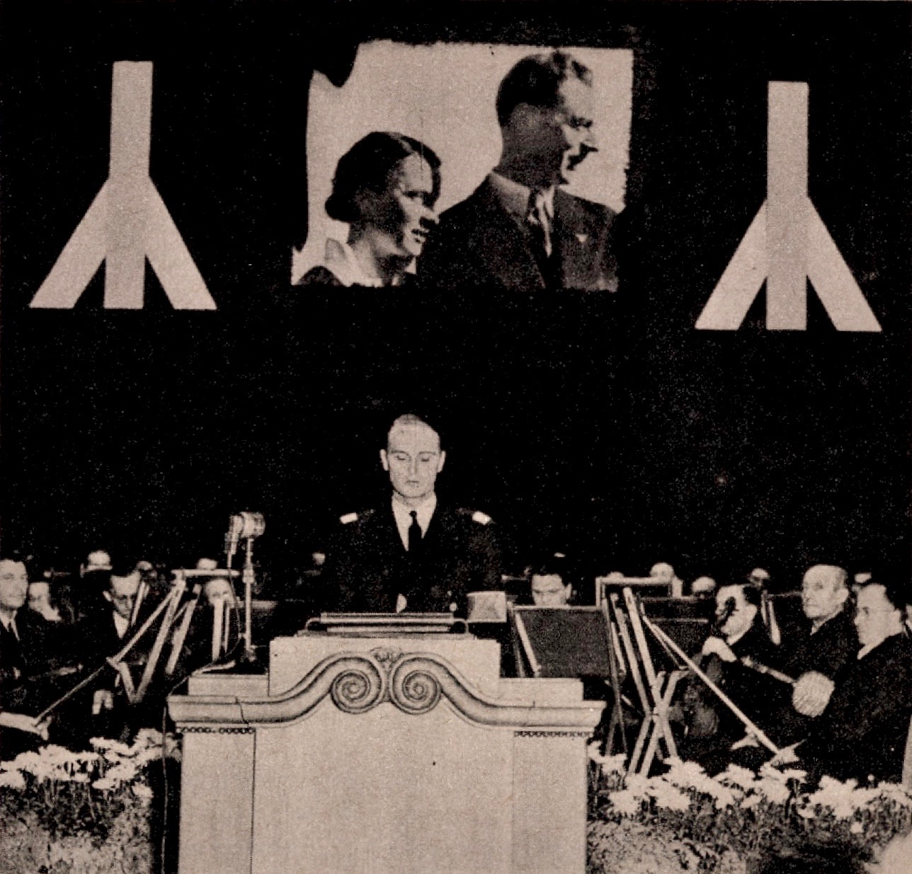 Photo from "Liv i kamp for Norge" ("Marie og Gulbrand Lunde Et liv i kamp for Norge"), a memorial book about Norwegian couple Marie (1907–1942) and Gulbrand Lunde (politician, 1901–1942), published by "Rikspropagandaledelsen" (propaganda department of Nasjonal Samling, Norwegian fascist party 1933–1945) and "Blix forlag" in Oslo, Norway 1942.Cropped JPG from PDF (a low resolution digitized version) of the book downloaded from National Library of Norway's site NO-OsNB (999824600824702202)